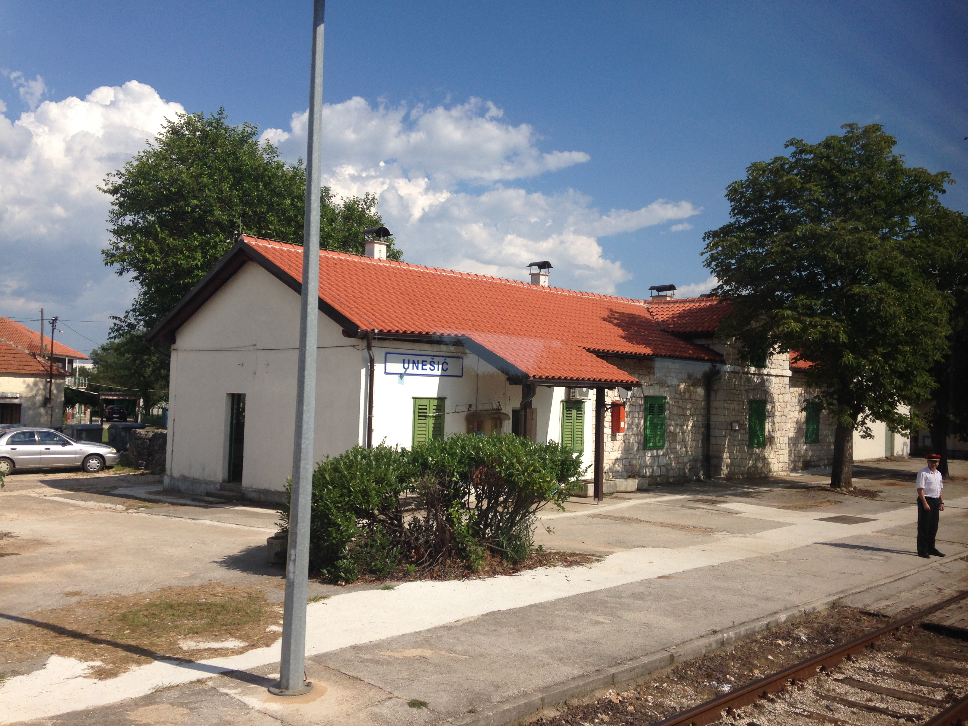 Station Unešić